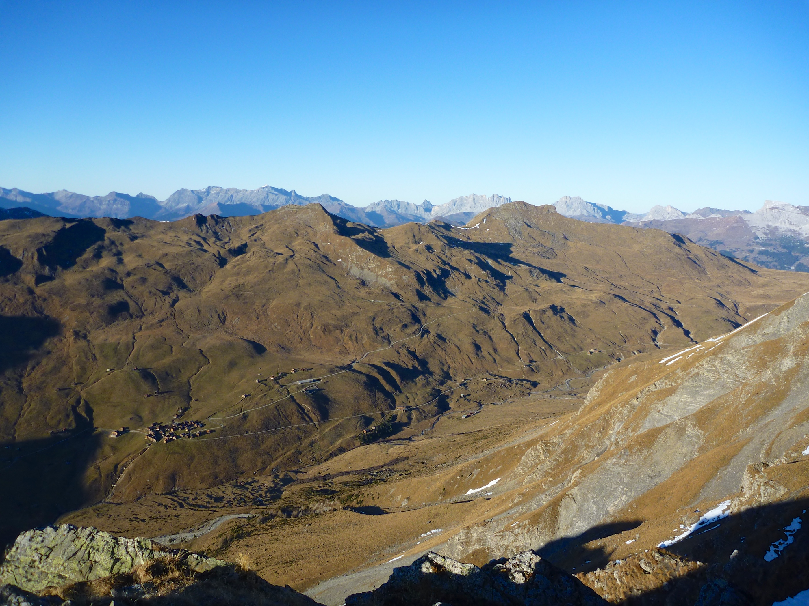 Fondei Valley above Langwies/Arosa, Switzerland